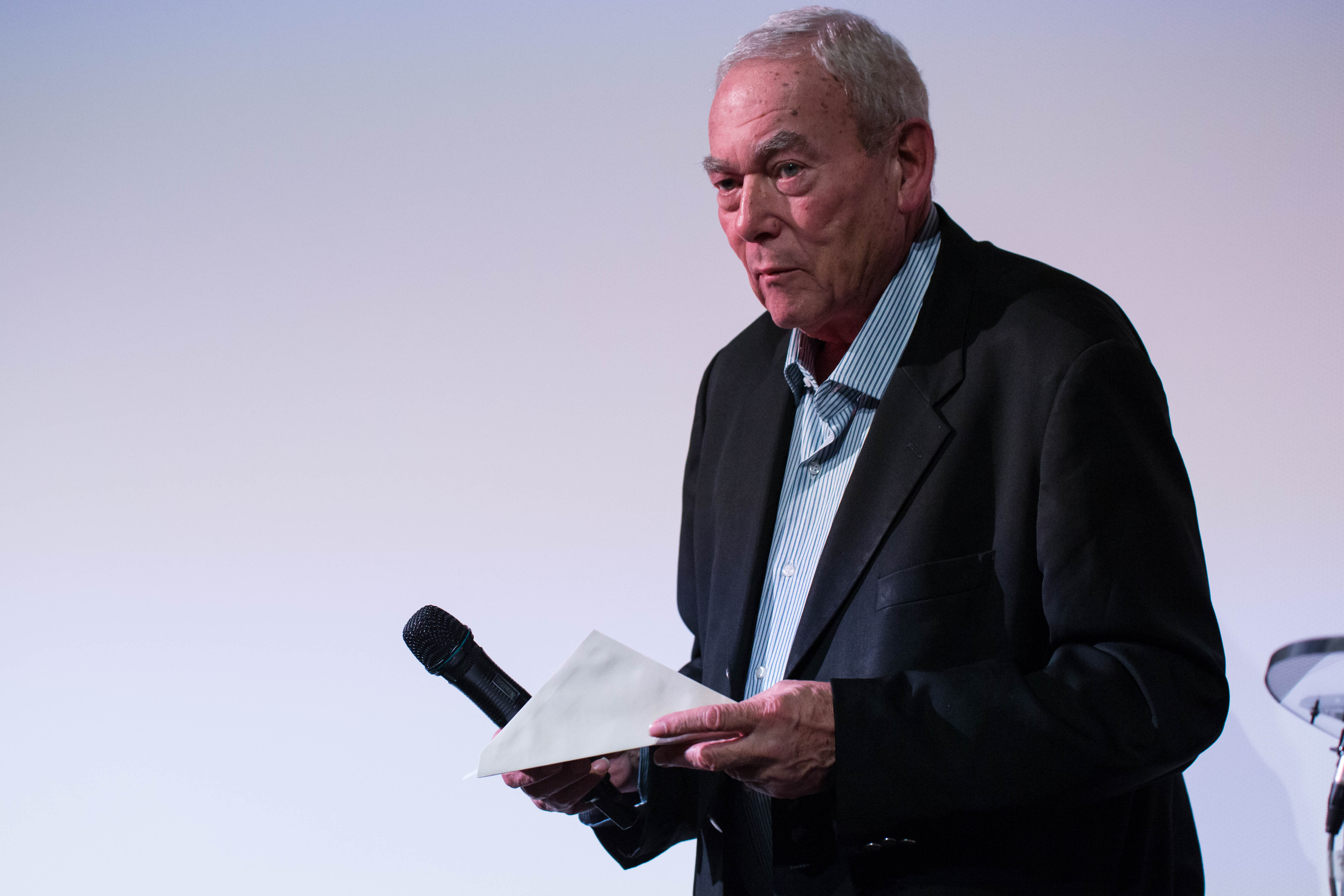 Yves Boisset at festival Cinespaña 2015